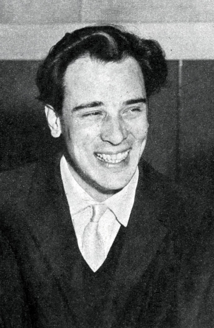 photo from the magazine Radiocorriere (1955)